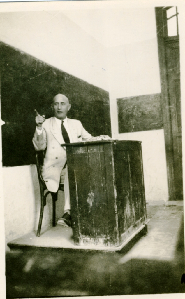 literature teacher, Education in Israel